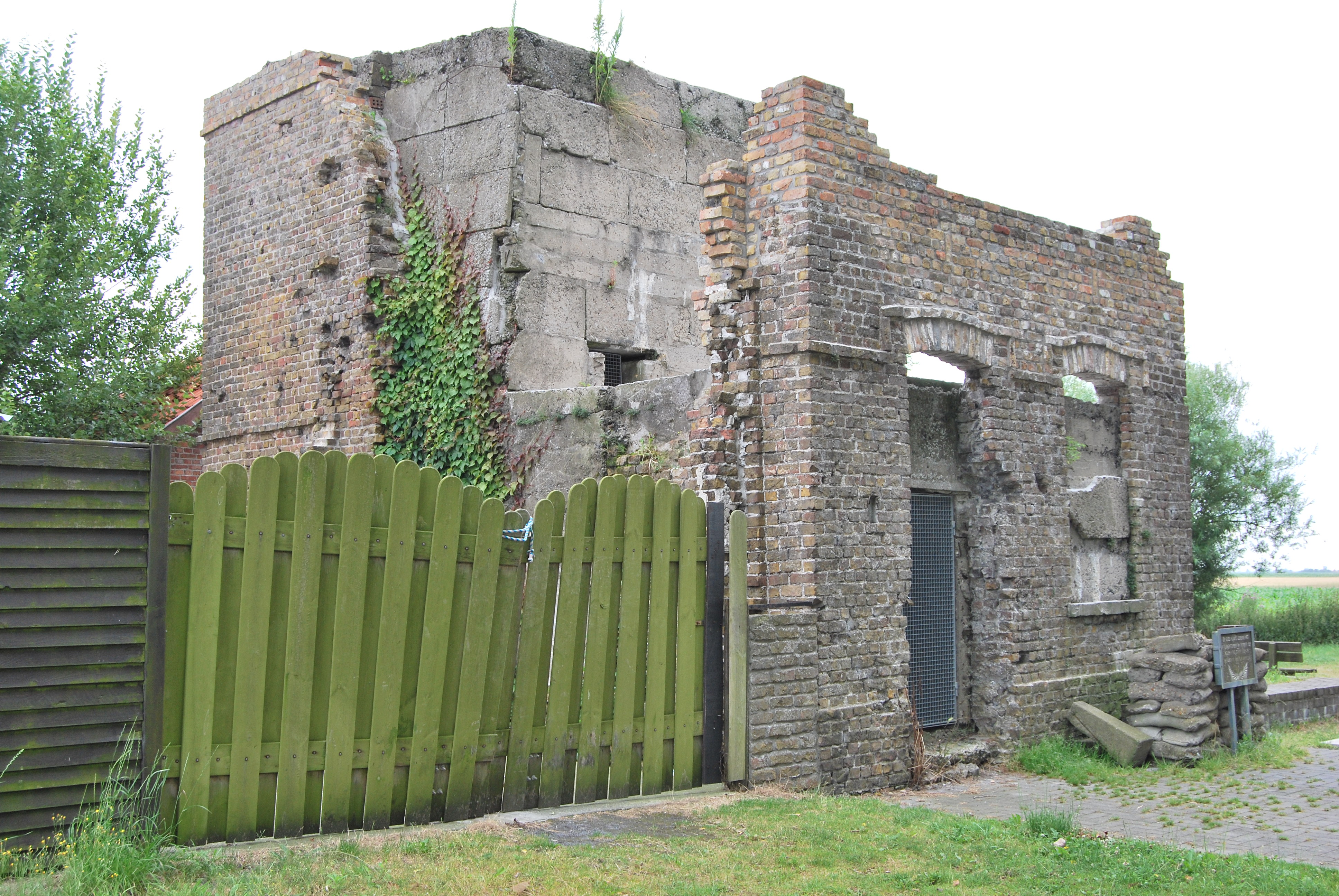 Bunker built in station of Ramskapelle during WW-1